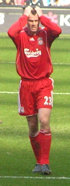 Image of Jamie Carragher, Liverpool FC player